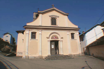 Church of Canischio (province of Turin, Piedmont, Italy)